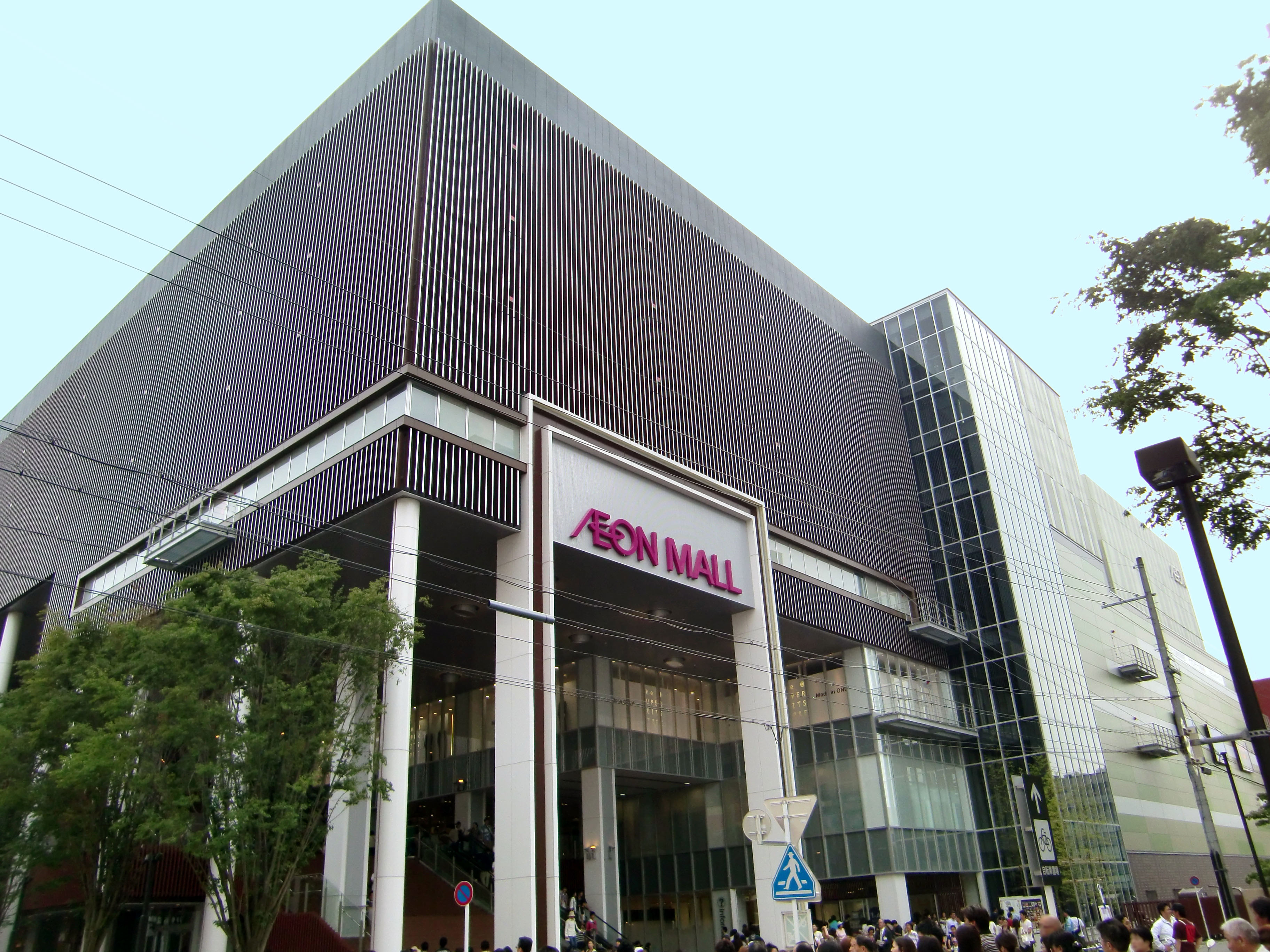 AEON MALL KYOTO Sakura-kan building, 1 Nishi-kujo Toriiguchi-cho Minami-ku Kyoto-City Kyoto JAPAN.